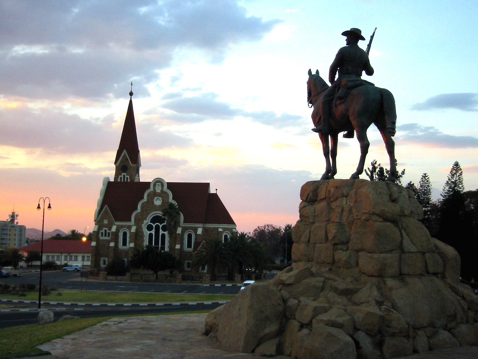 Main church in Windhoek, Namibia. Christuskirche in Windhoek, of the German Evangelican-Lutheran Church